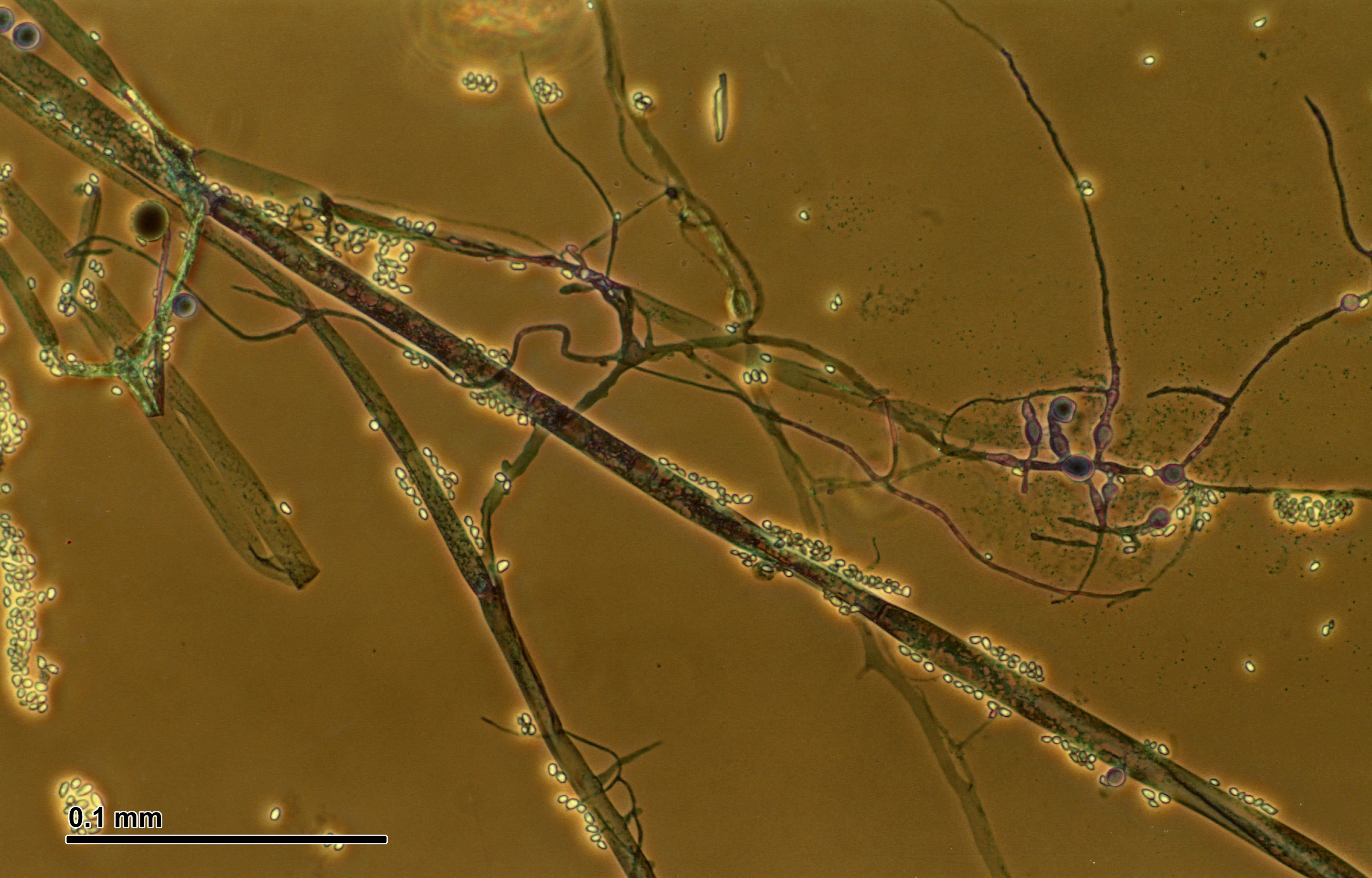 Thamnidium. Optical microscopy technique: Positive phase contrast. Magnification: 600x (for picture width 26 cm ~ A4 format).